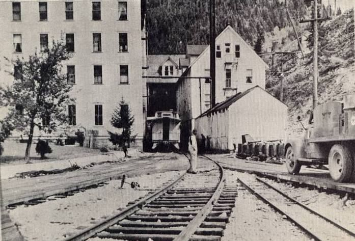 Burke, Idaho postcard showing the Tiger Hotel in 1888.